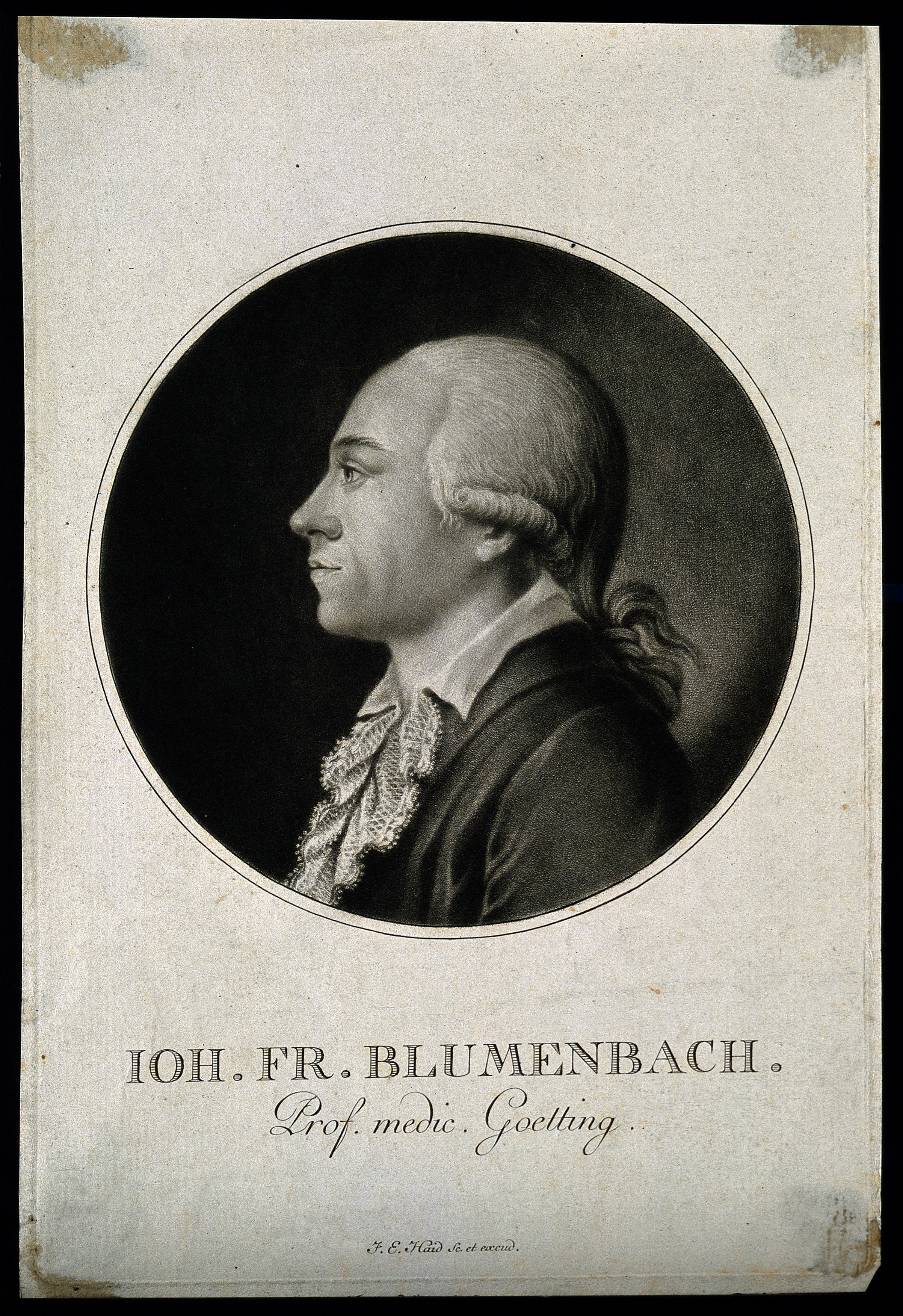 Johann Friedrich Blumenbach. Mezzotint by F. E. Haid. Iconographic Collections Keywords: portrait prints; Johann Friedrich Blumenbach; mezzotints; blumenbach, johann friedrich